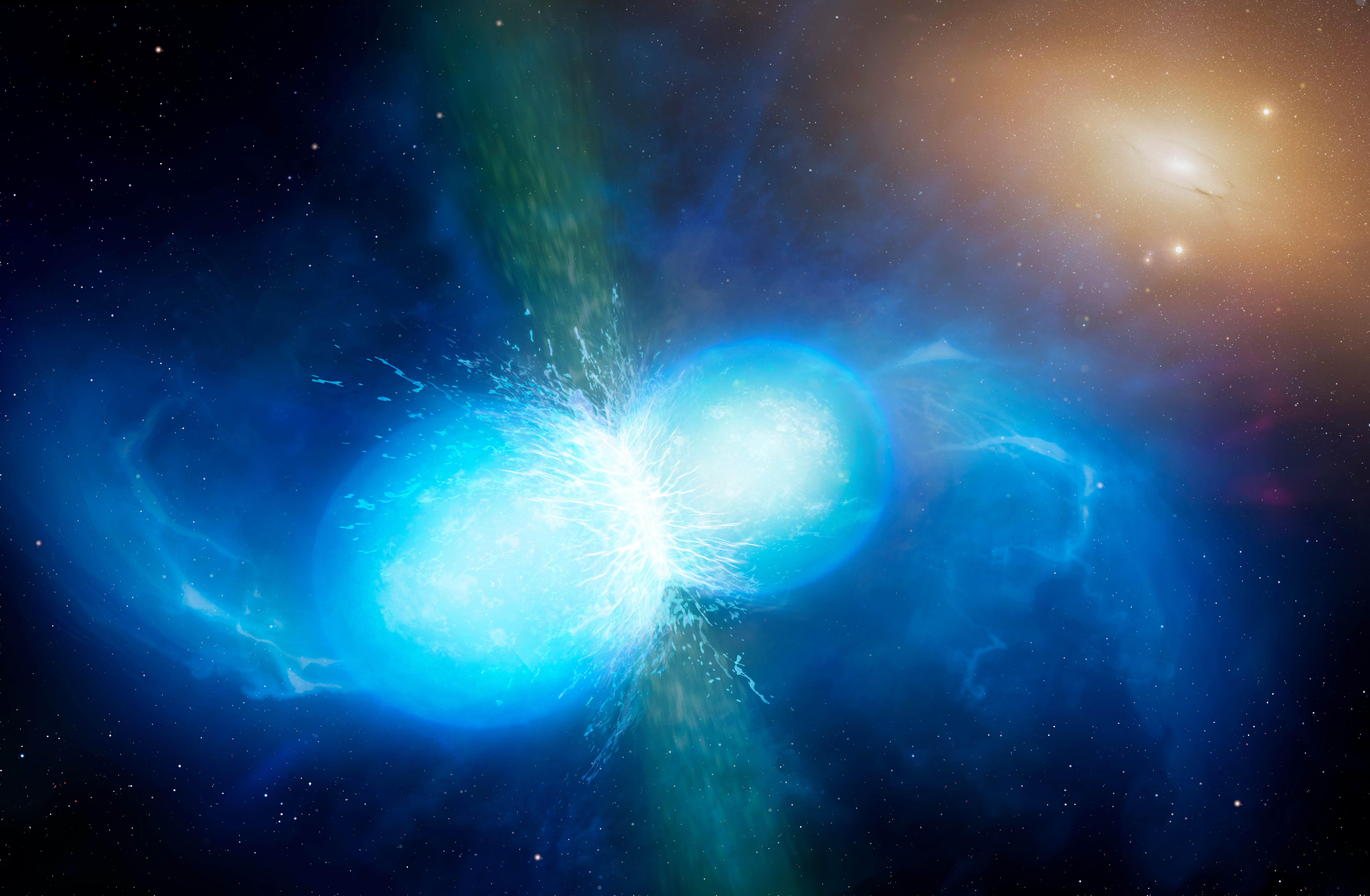 This artist’s impression shows two tiny but very dense neutron stars at the point at which they merge and explode as a kilonova. Such a very rare event is expected to produce both gravitational waves and a short gamma-ray burst, both of which were observed on 17 August 2017 by LIGO–Virgo and Fermi/INTEGRAL respectively. Subsequent detailed observations with many ESO telescopes confirmed that this object, seen in the galaxy NGC 4993 about 130 million light-years from the Earth, is indeed a kilonova. Such objects are the main source of very heavy chemical elements, such as gold and platinum, in the Universe.